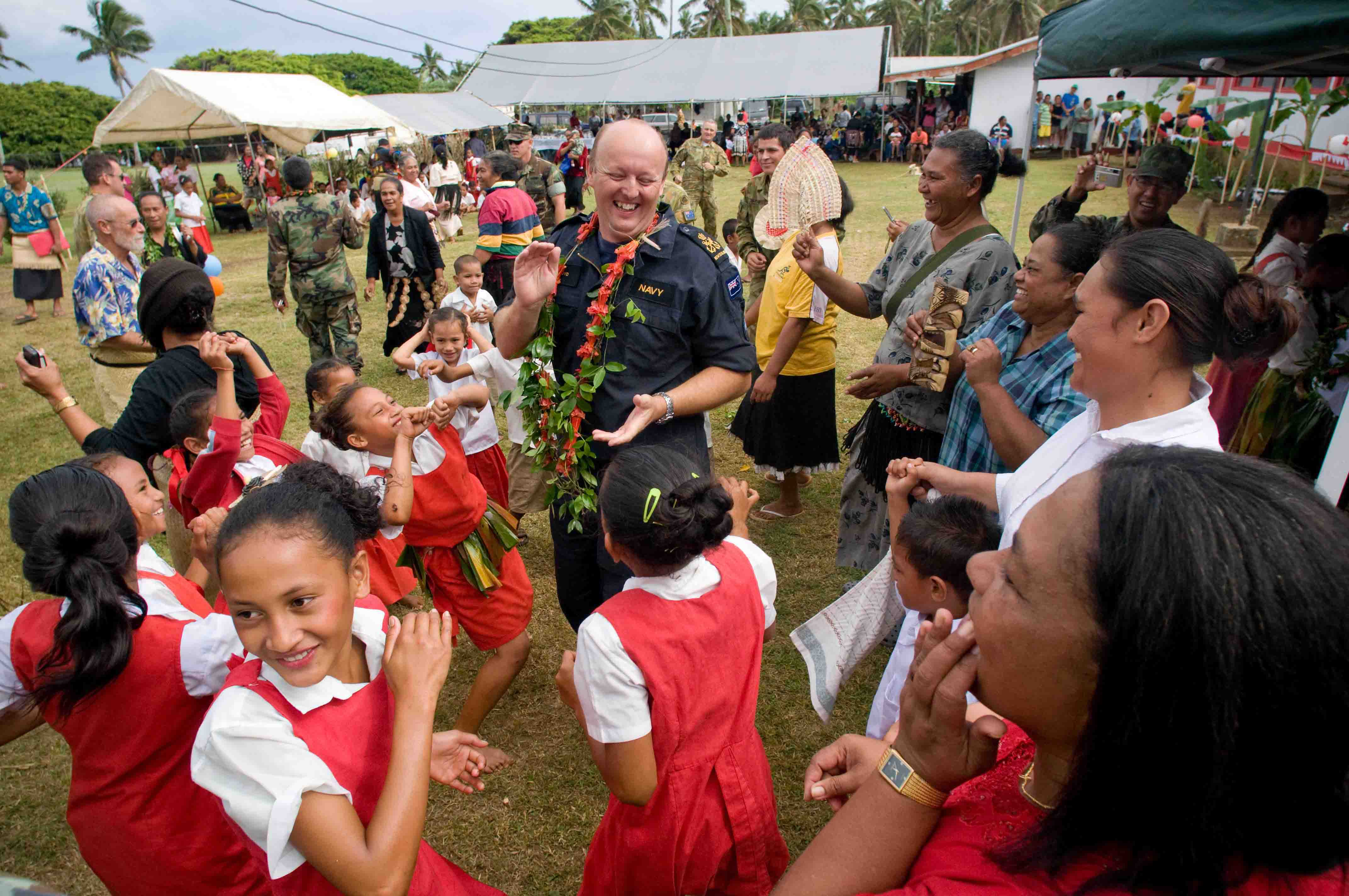 FALELOA, Tonga (July 24, 2009) Royal New Zealand Navy Petty Officer Richard Boyd dances with school children during a Pacific Partnership 2009 community service project at Faleloa Primary School. Pacific Partnership is a humanitarian assistance mission in the U.S. Pacific Fleet area of responsibility. Pacific Partnership is currently in Oceania, and will continue to Kiribati, Republic of the Marshall Islands and the Solomon Islands. (U.S. Navy photo by Mass Communication Specialist 2nd Class Joshua Valcarcel/Released)